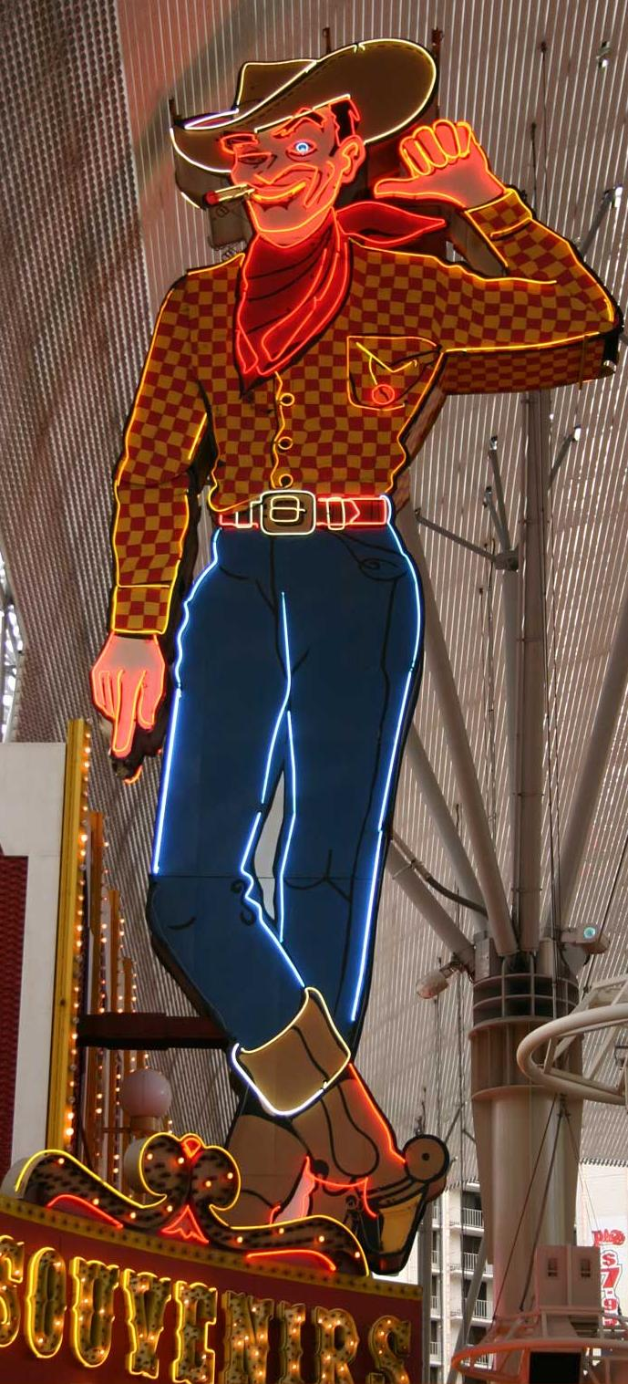 Vegas Vic, a 40 feet (12 m) tall neon sign built in 1951 for the Pioneer Club on Fremont street in Las Vegas, Nevada. Photograph from 2008, following restoration around 1998. The sign was designed by Pat Denner, and fabricated by the Young Electric Sign Company. The sign was originally animated: the cowboy's left hand waved, his eye winked, the cigarette moved, and smoke rings emerged from his mouth. Reference: Moreno, Richard (2008) Nevada Curiosities: Quirky Characters, Roadside Oddities & Other Offbeat Stuff, Globe Pequot, p. 1,880 ISBN: 978-0-7627-4682-8.